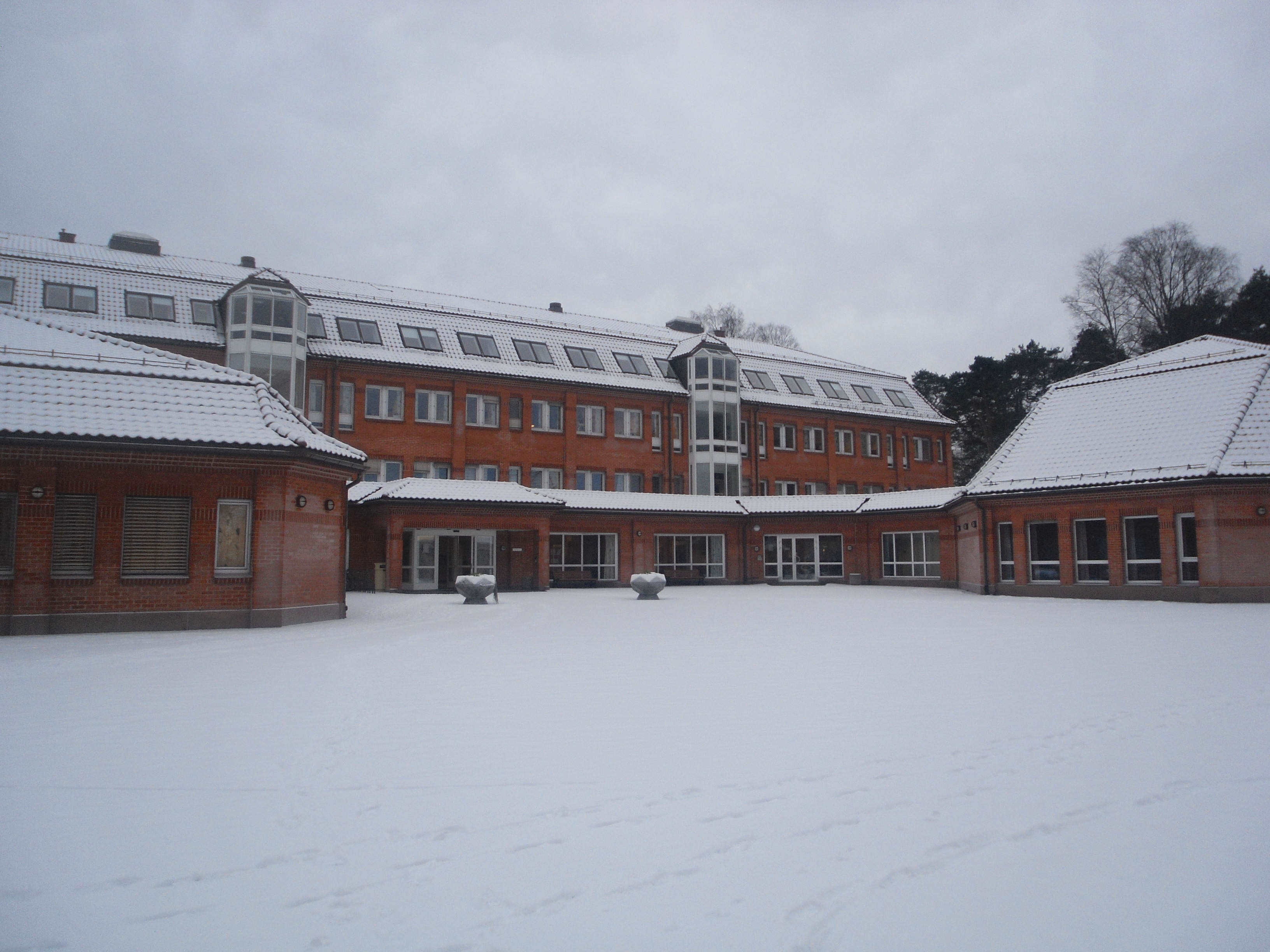 Sarpsborg town hall